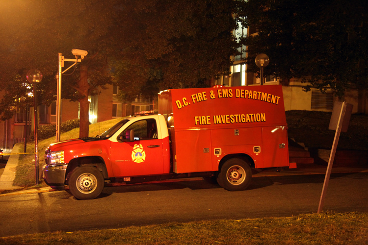 A Fire Investigation Unit (arson investigation) truck belonging to the D.C. Fire and Emergency Medical Services Department at a fire in Washington, D.C., in the United States.